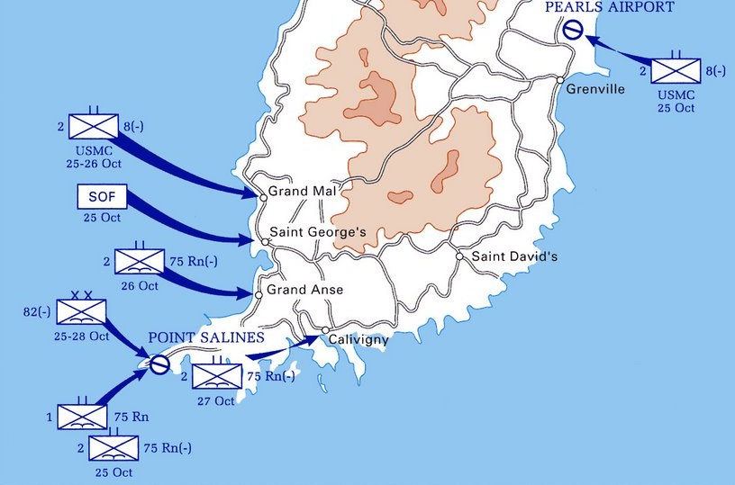 This is part of a wall poster distributed by a US Army Public Affairs Office. I had a copy of the original which included more information on the margins.